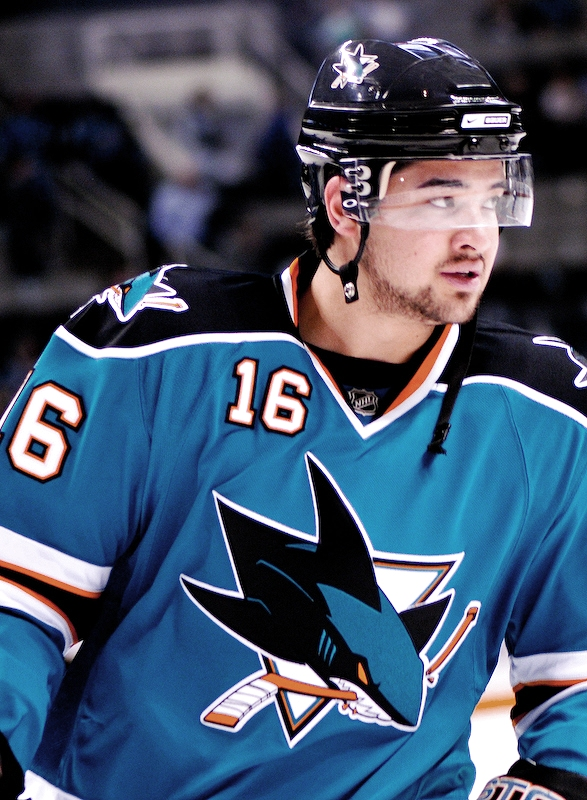 Devin Setoguchi